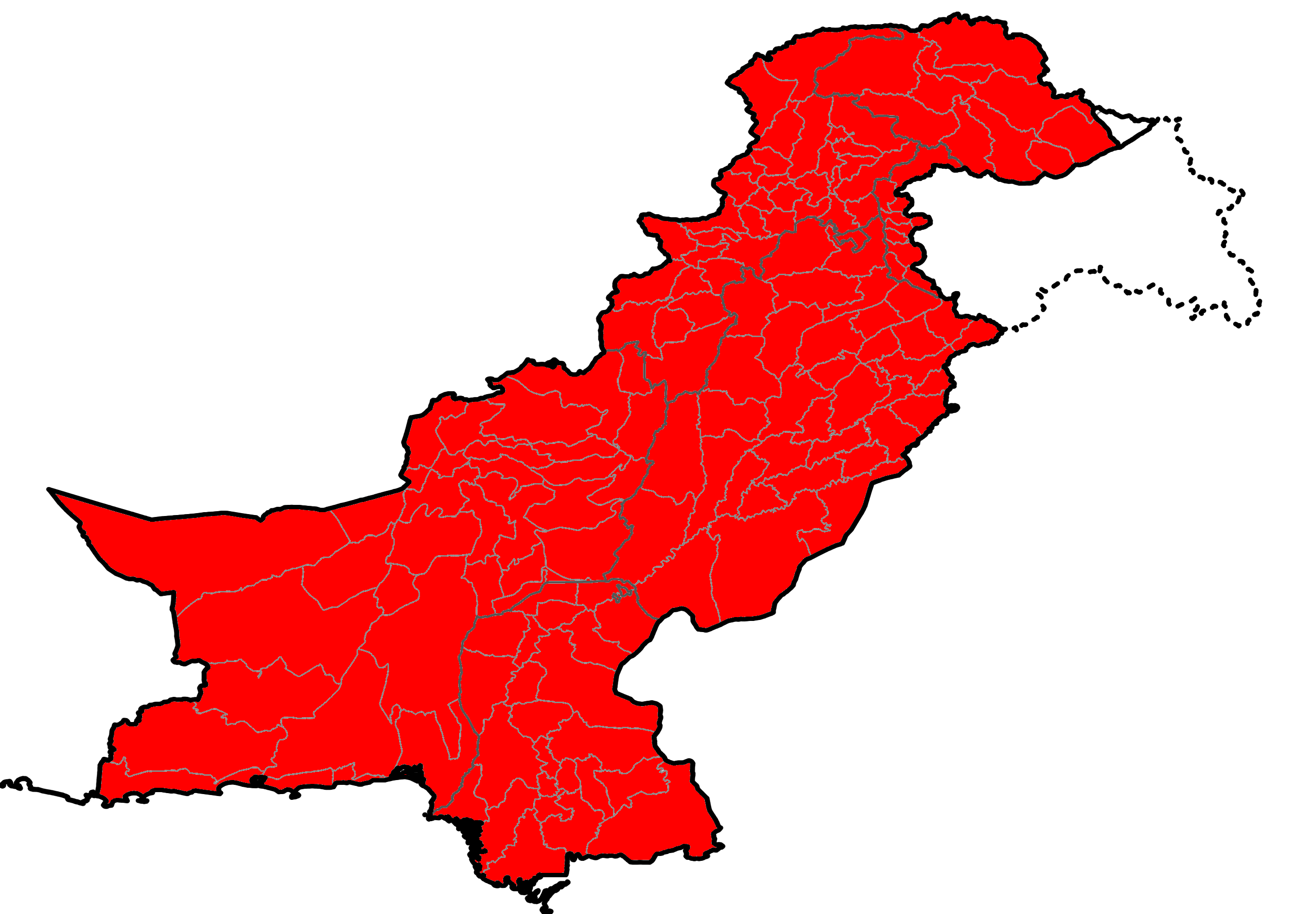 Map showing confirmed cases of COVID-19 in the districts of Pakistan since 17 June 2020. Be aware that since this is a rapidly evolving situation, new cases may not be immediately represented visually. Refer to the primary article 2020 coronavirus outbreak in Pakistan or the [1] for most recent reported case information. Cases have now been reported in every single district in all of Pakistan, including AJK and Gilgit-Baltistan.Sources:Gilgit-BaltistanKhyber PakhtunkhwaAzad Jammu & KashmirIslamabad Capital TerritoryPunjabSindhBalochistanThe template can be found here